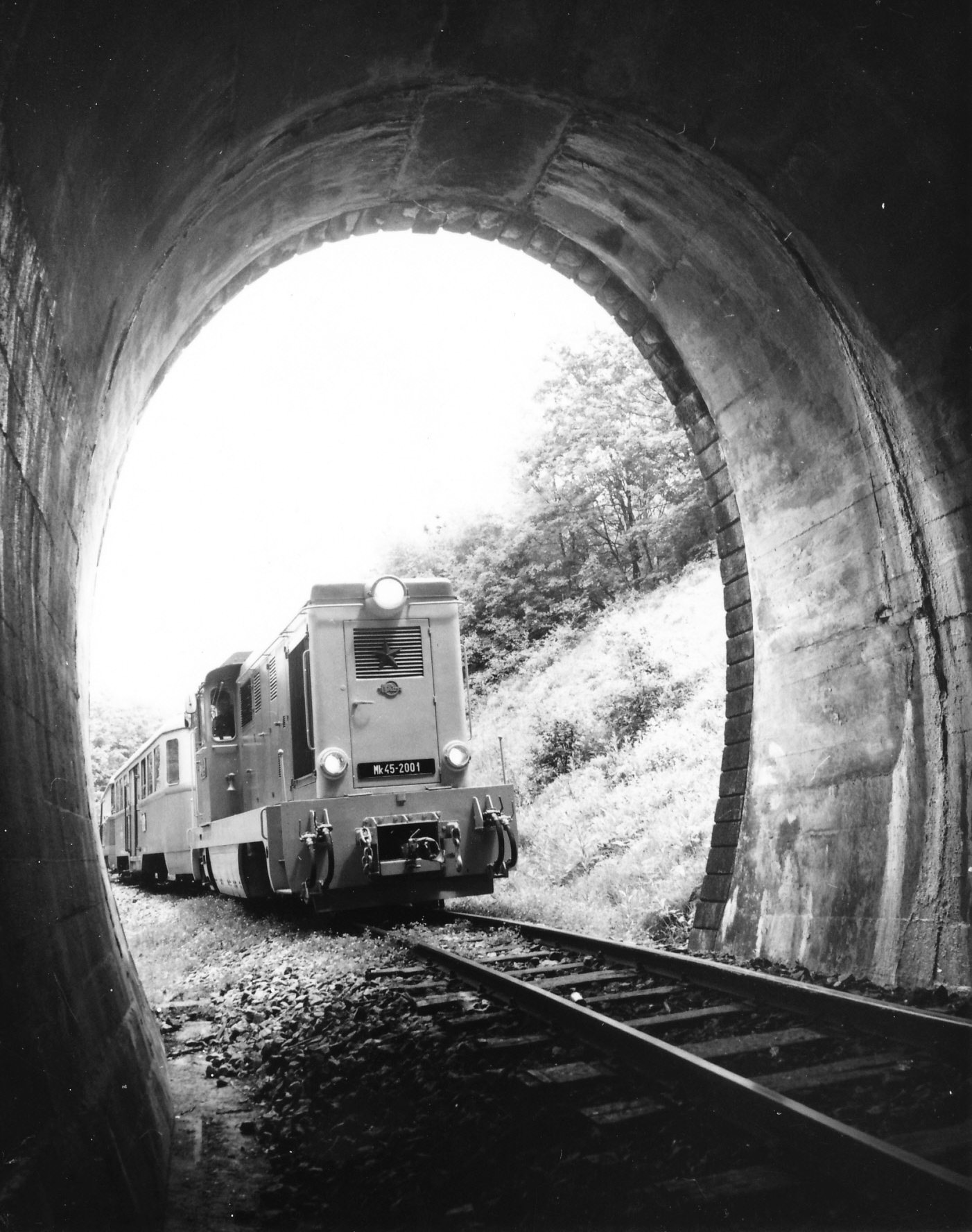 Location: Hungary, Budapest II. Tags: Budapest, tunnel